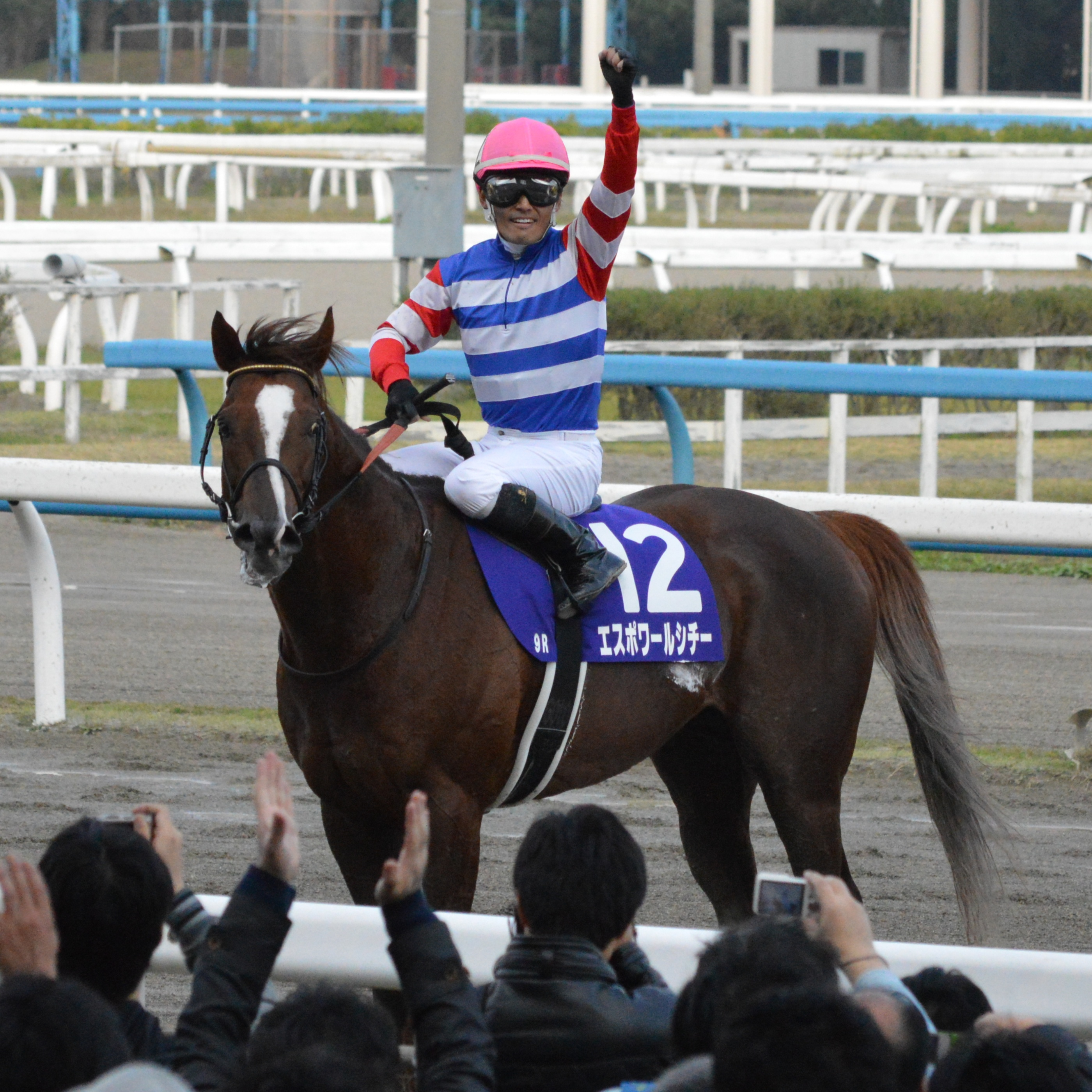 Japanese race horse Espoir City at Kanazawa racecourse. Kanazawa (JPN) 04 Nov 2013 JBC Sprint (Local Grade 1) (Dirt) (3yo+) 7f Sloppy RankHorse NameOddsAgeWgtTrainerJockey1stEspoir City (JPN)7/10FH89-0Akio AdachiHiroki Goto2ndDream Valentino (JPN)9/1H69-0Tadashi KayoMirco Demuro3rdSei Crimson (JPN)56/10H79-0Toshiyuki HattoriYasunari Iwata4th - 12th/omission